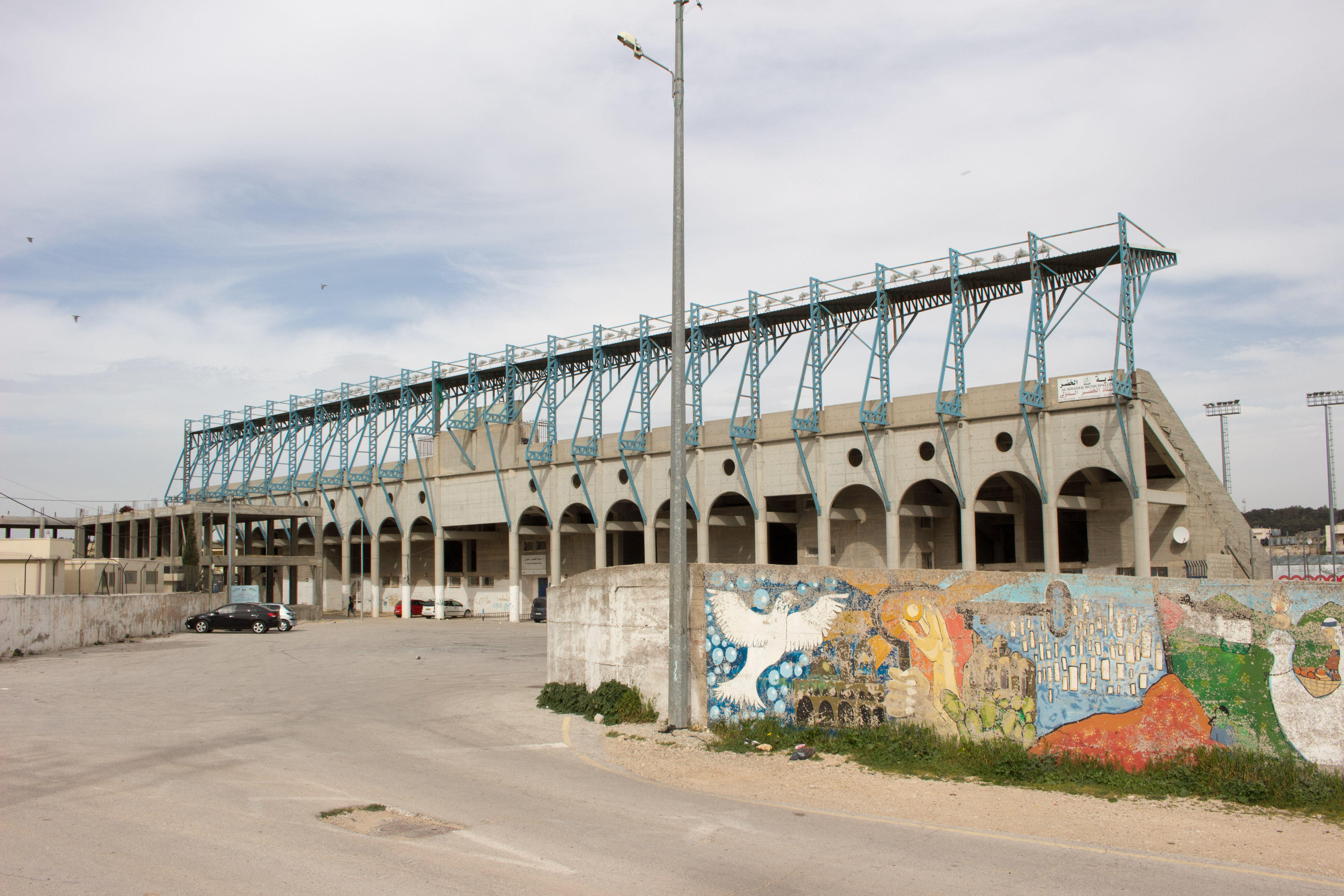 An outside view of Al Khader stadium in the suburb of Al Khader, Bethlehem, Palestine.